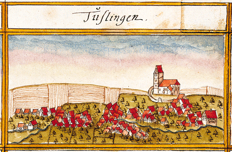 View of Dußlingen from the forest register books created by Andreas Kieser